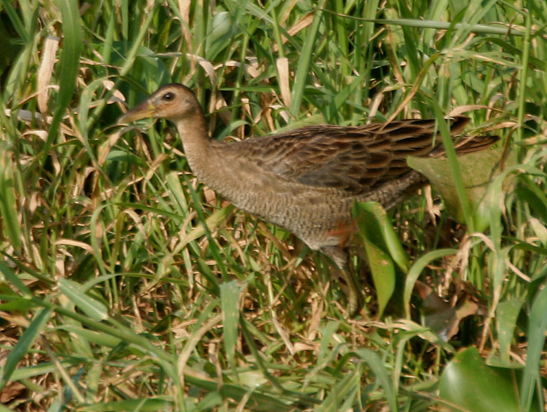 Watercock Gallicrex cinerea at Uppalapadu, Andhra Pradesh, India.